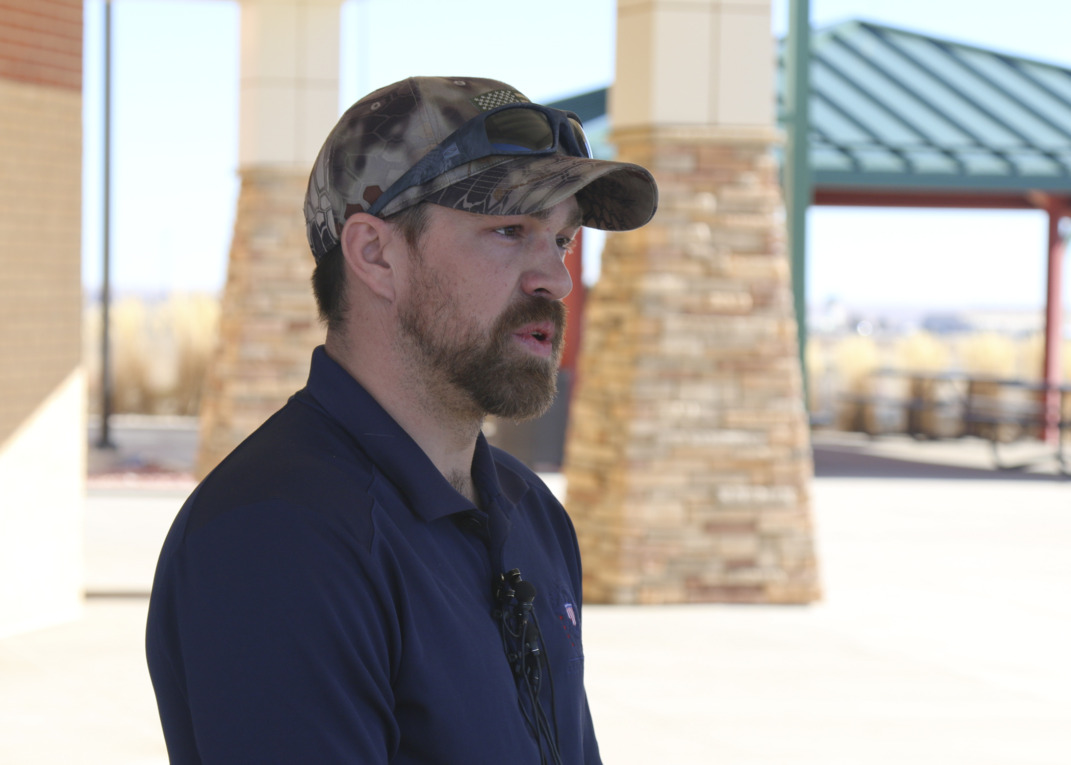 FORT CARSON, Colo. - Medal of Honor recipient and former 4th Infantry Brigade Combat Team Soldier Clint Romesha addresses the media before a luncheon with Soldiers from 3rd Squadron, 61st Cavalry Regiment, 4IBCT, 4ID at the Wilderness Dining Facility, Jan.28, 2015. The event allowed Romesha to connect with Soldiers in a casual setting and rekindle the camaraderie he enjoyed while in uniform. (U.S. Army photo by Sgt. Nelson Robles, 4th Infantry Brigade Combat Team PAO)